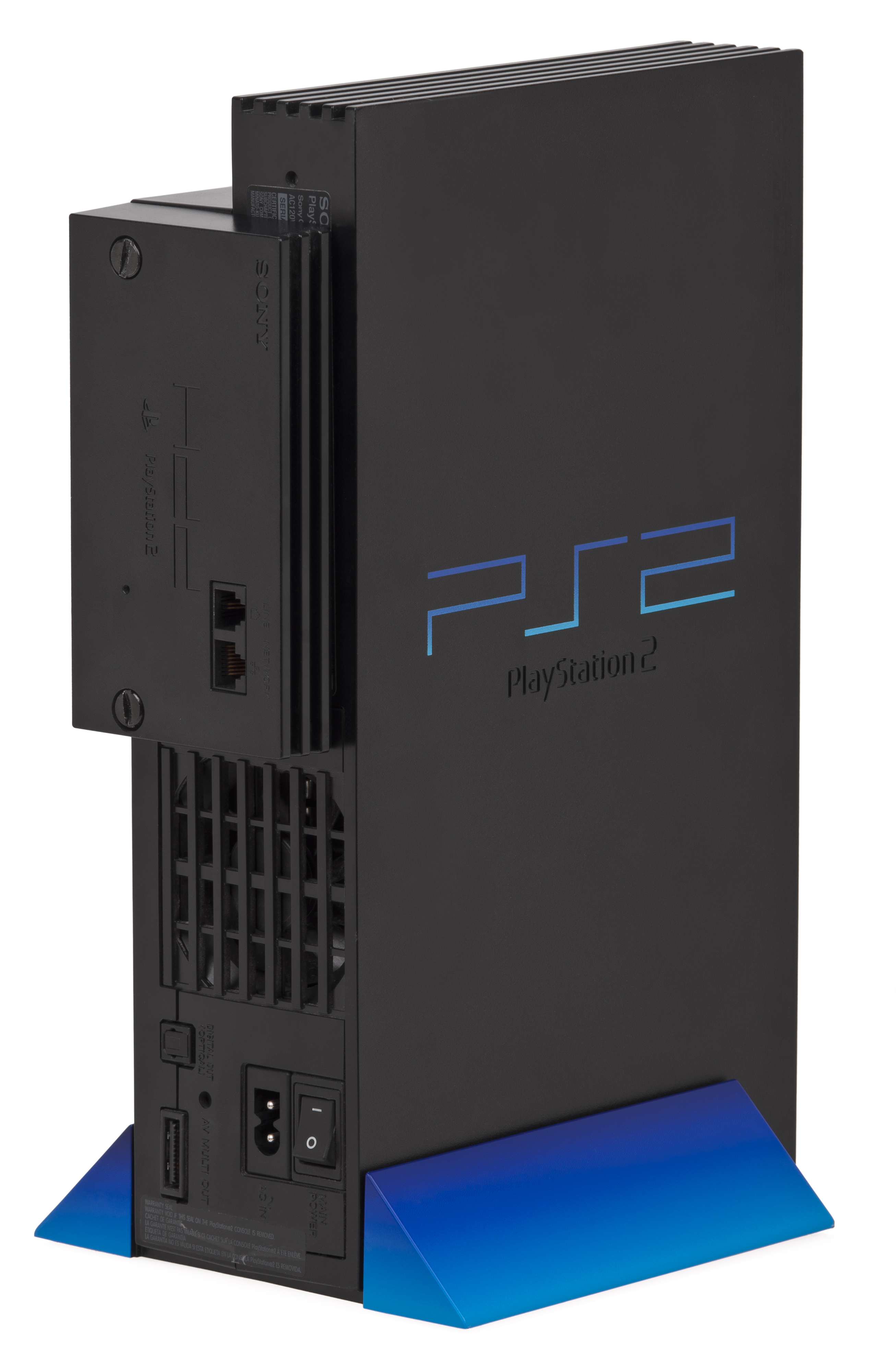 The back of a PlayStation 2 console, shown with Network Adapter attached.